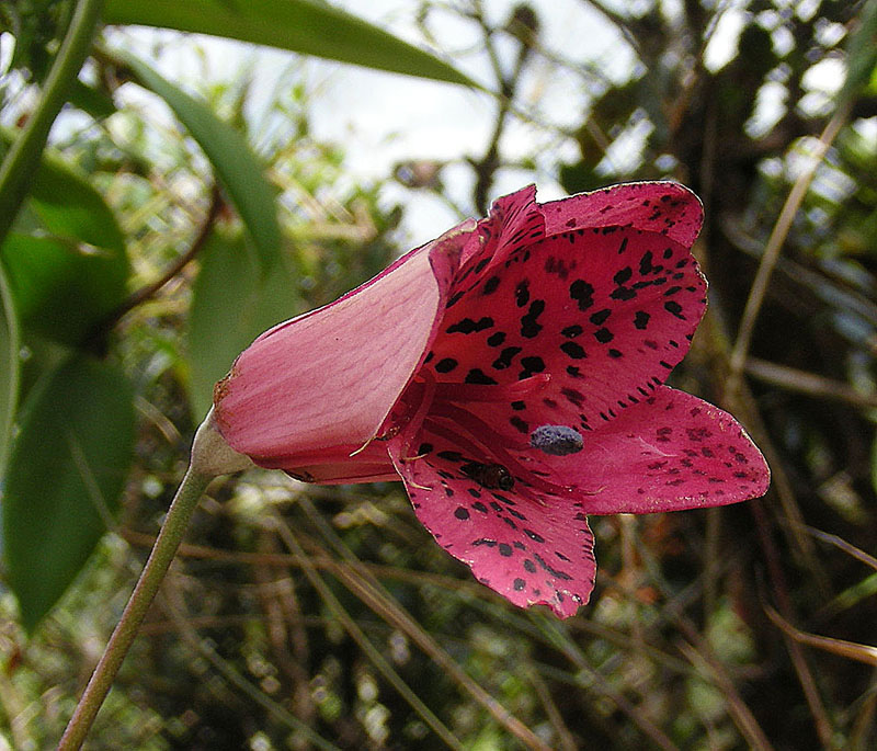 From the Cordillera Condor of Peru and Ecuador. In context at